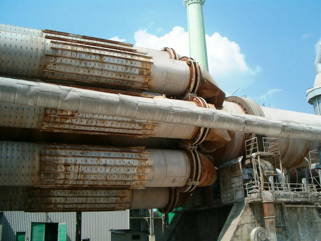 Satellite cooler at the cement kiln. Location: Gorazdze Cement Plant near Chorula (Poland).